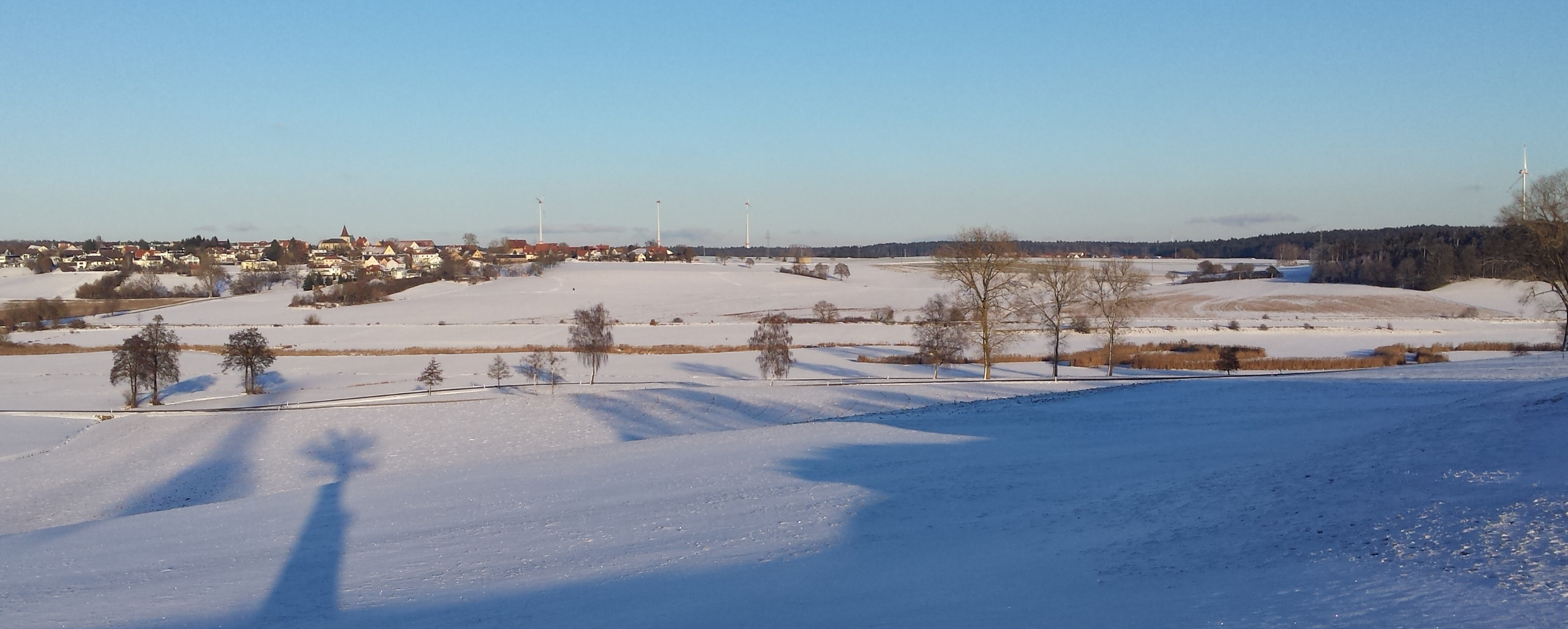 View of Lehengütingen, Bavaria, Germany